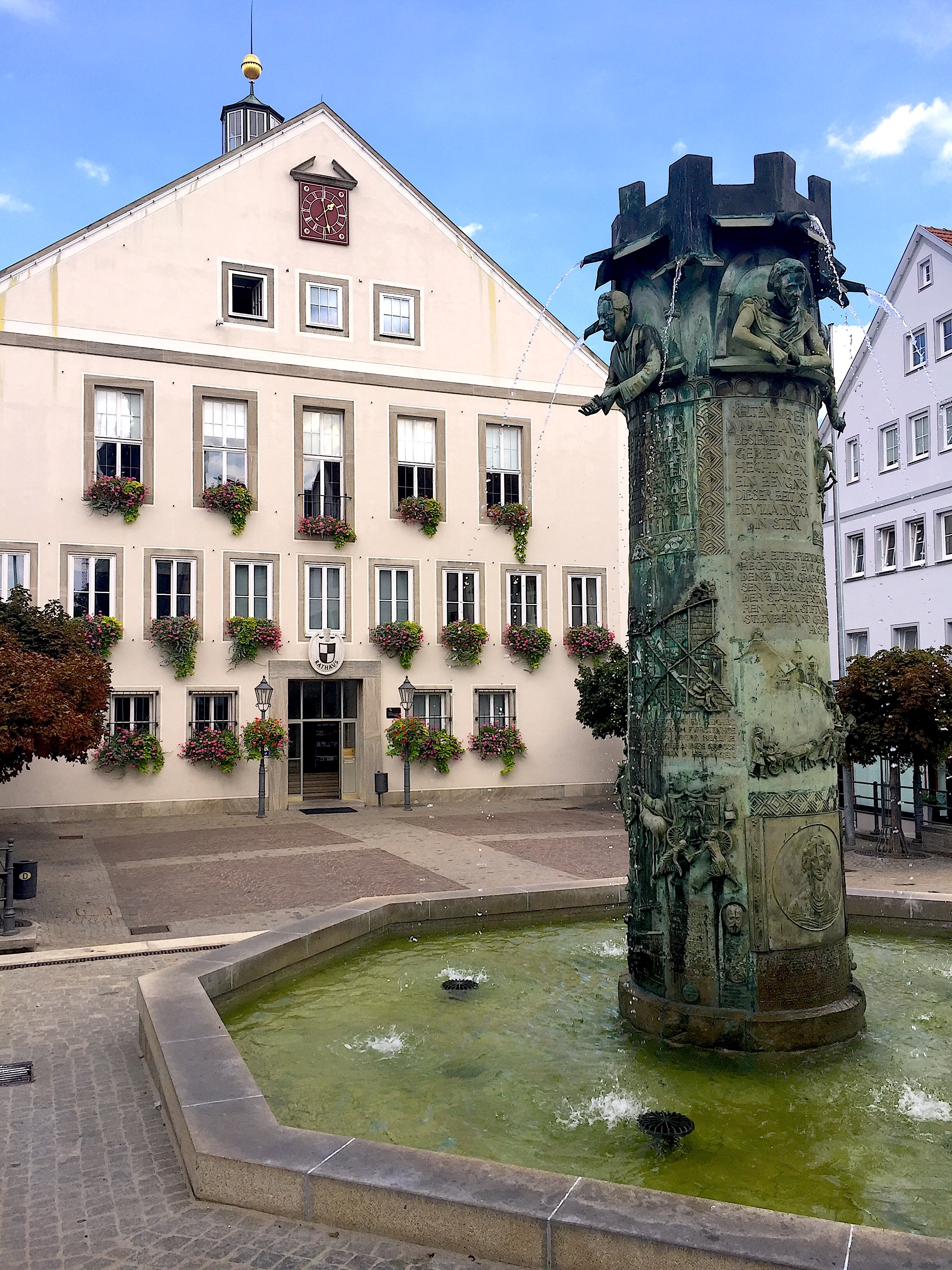 The fountain infront of municipal building portrays in detailed reliefs the history of Hechingen from early settlement to the present day.